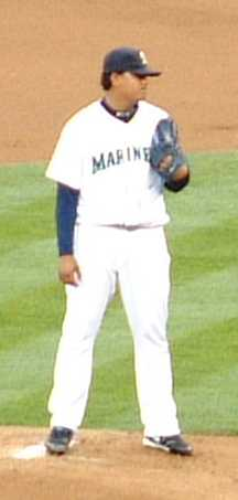 Félix Hernández of the Seattle Mariners on August 31, 2005.